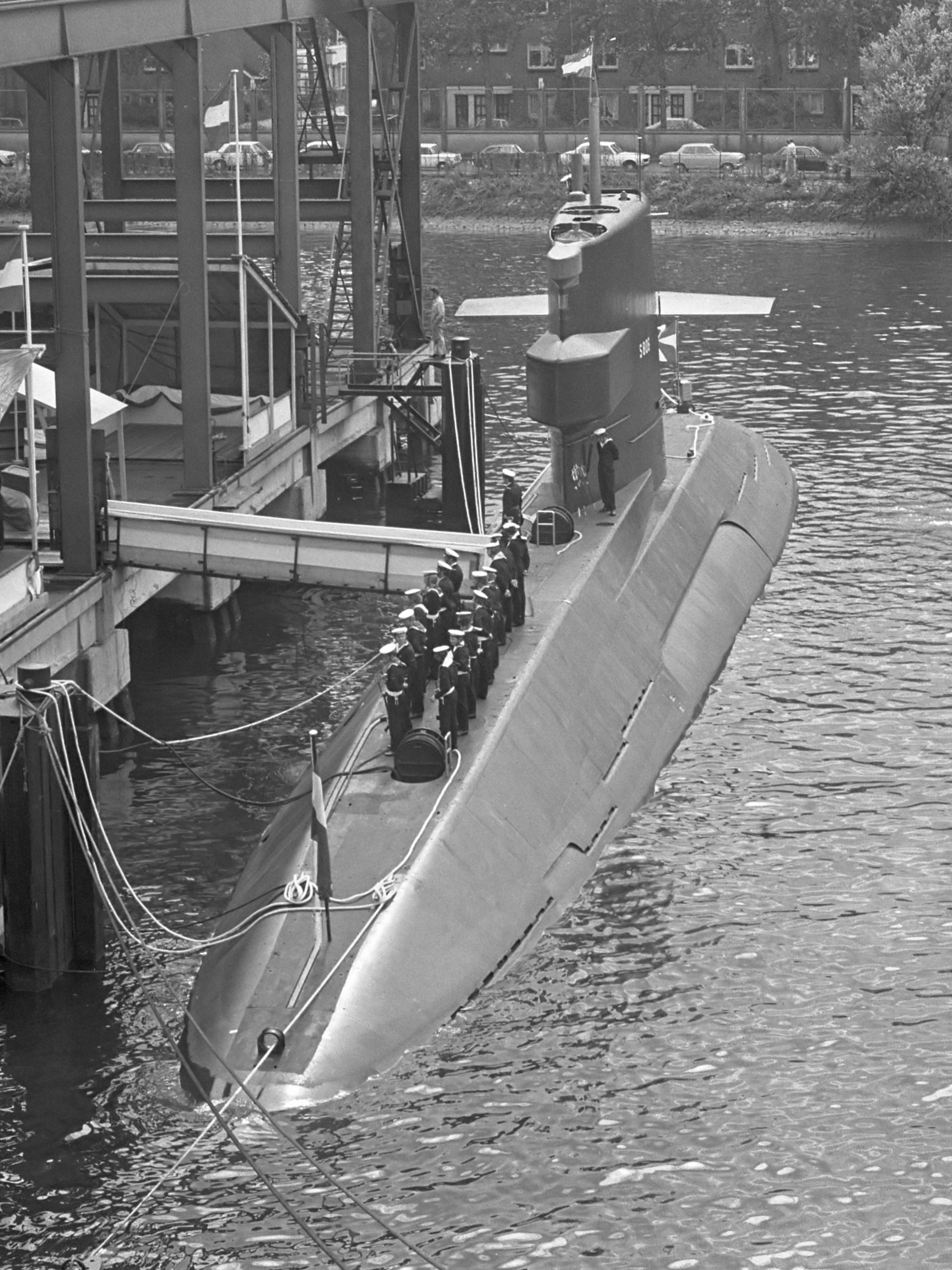 Indienststelling onderzeeboot "Zwaardvis" bij de RDM te Rotterdam 18 augustus 1972